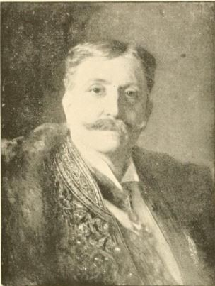 Jules Patenôtre des Noyers